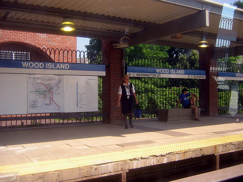 Inbound platform at Wood Island station on the MBTA Blue Line